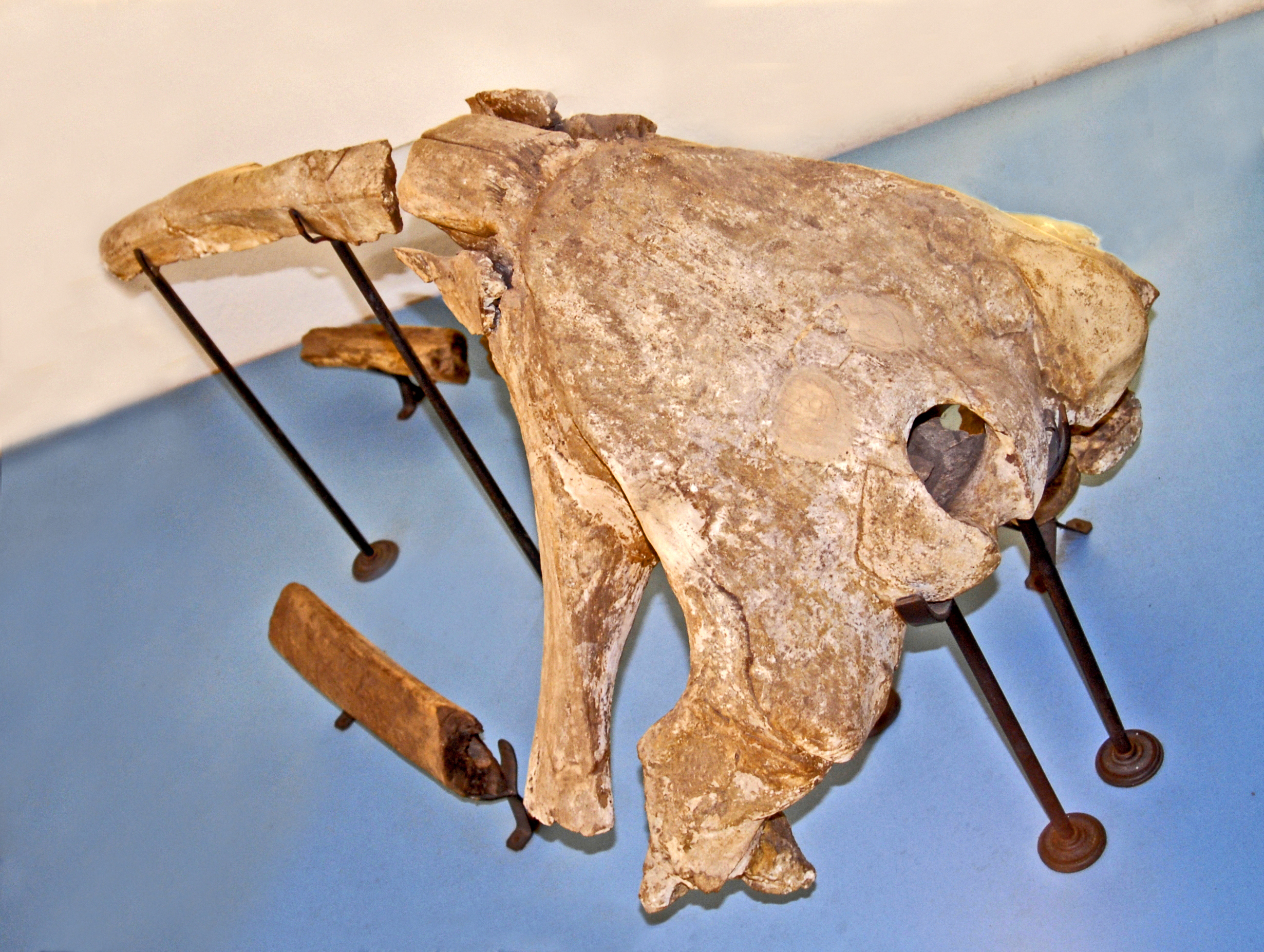 Fossil skull and mandibles of Balaenula astensis from Portacomaro (Asti), on display at the Museo di Storia Naturale e del Territorio, Calci (Province Pisa), Italy